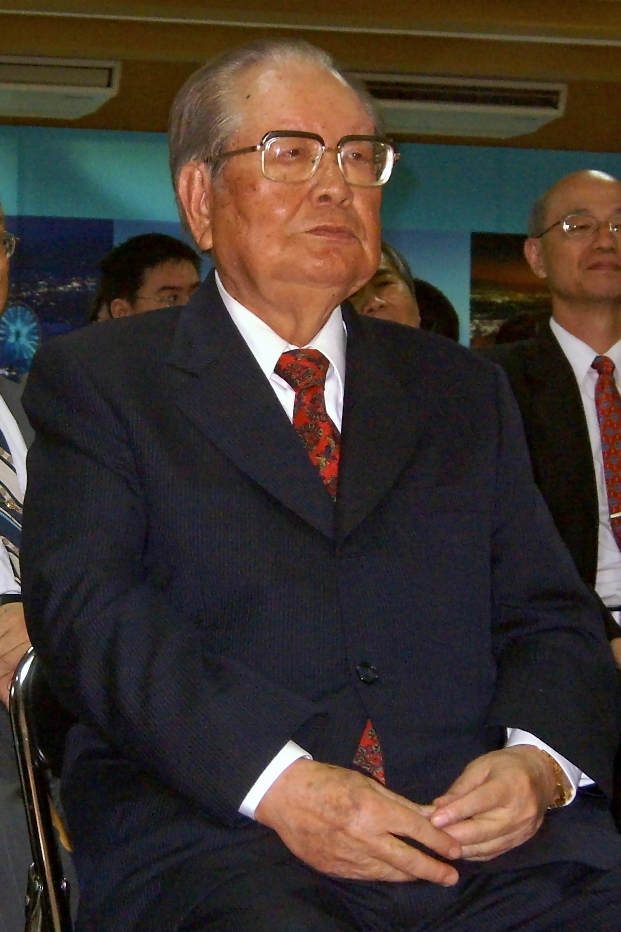 Chuang-huan Chiu.